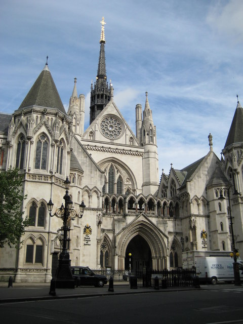 Westminster: The Royal Courts of Justice, Strand, WC2 The Royal Courts of Justice was opened by Queen Victoria in 1882. It was designed in its entirety in the Gothic style by the architect George Edmund Street, RA, (1824-1881), who sadly did not live to see its completion.